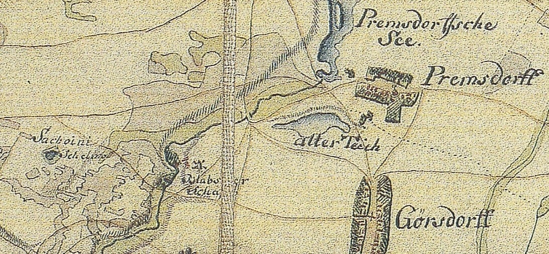 Village Görsdorf with Premsdorf, Blabbergraben, Blabbermühle and Blabberschäferei (mill and sheep farm) in a Schmettau map from 1767/87 (map extract). Today, Görsdorf is a part of the municipality Tauche in the District Oder-Spree, Brandenburg, Germany.